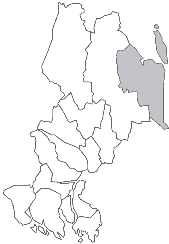 Map describing the location of Frösåkers Hundred in Uppsala County, Sweden.